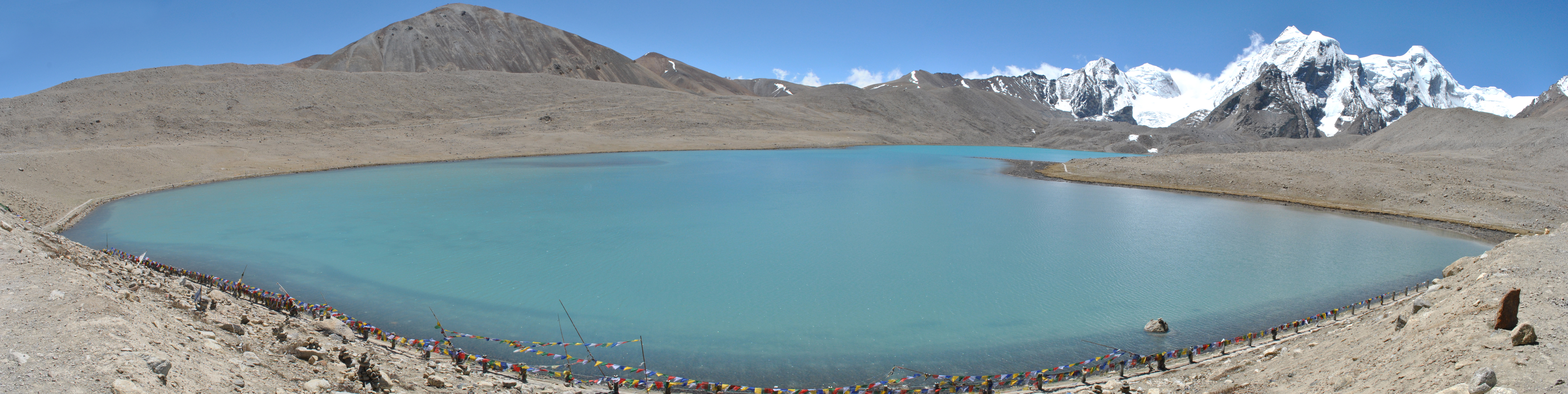 Panoramic view of Gurudongmar Lake, North Sikkim, India